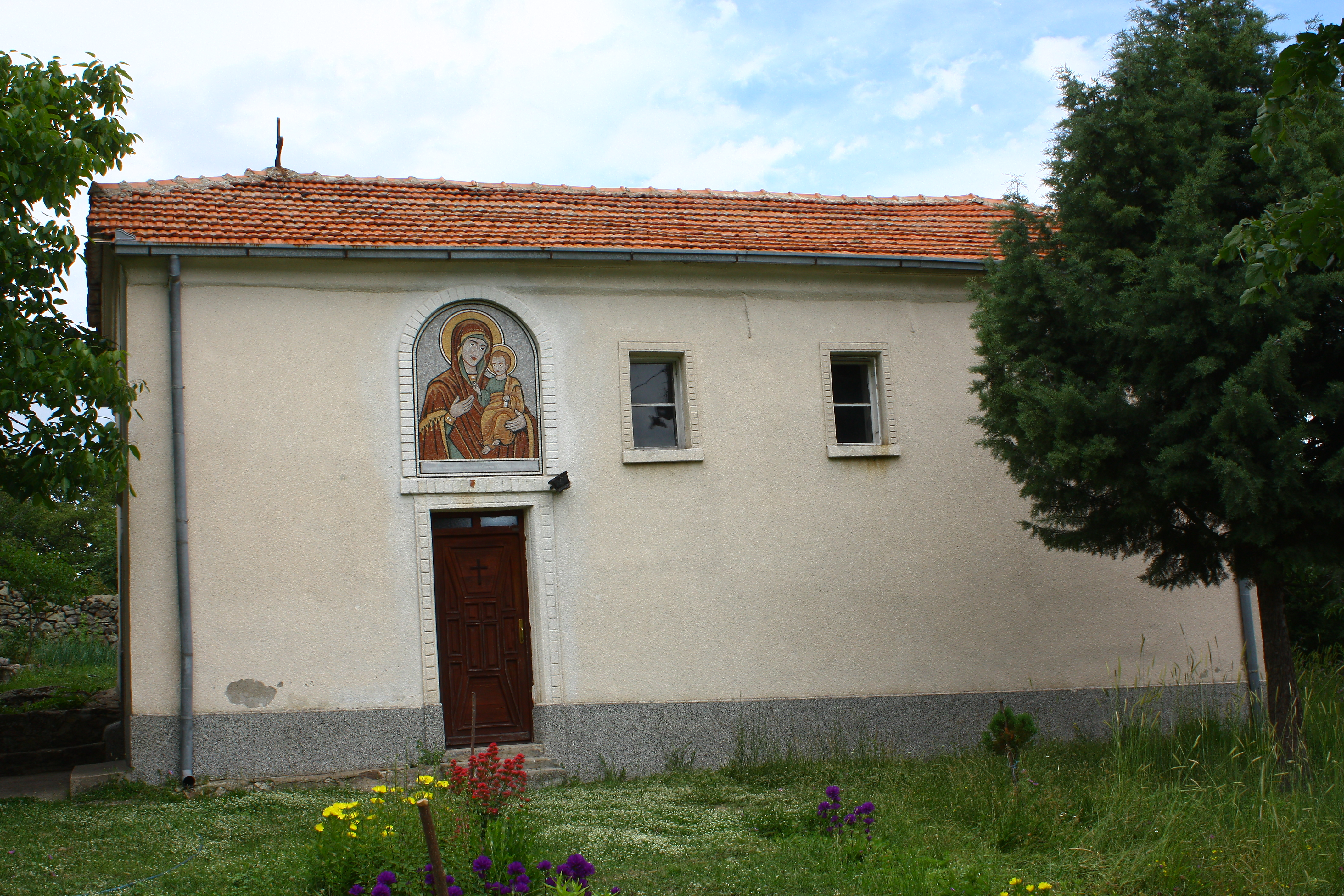 Nativity of the Theotokos Church in Ǵurište Monastery, Macedonia This image is uploaded as part of the picture contest Wiki Loves Cultural Heritage in Macedonia 2013. English | македонски | +/−